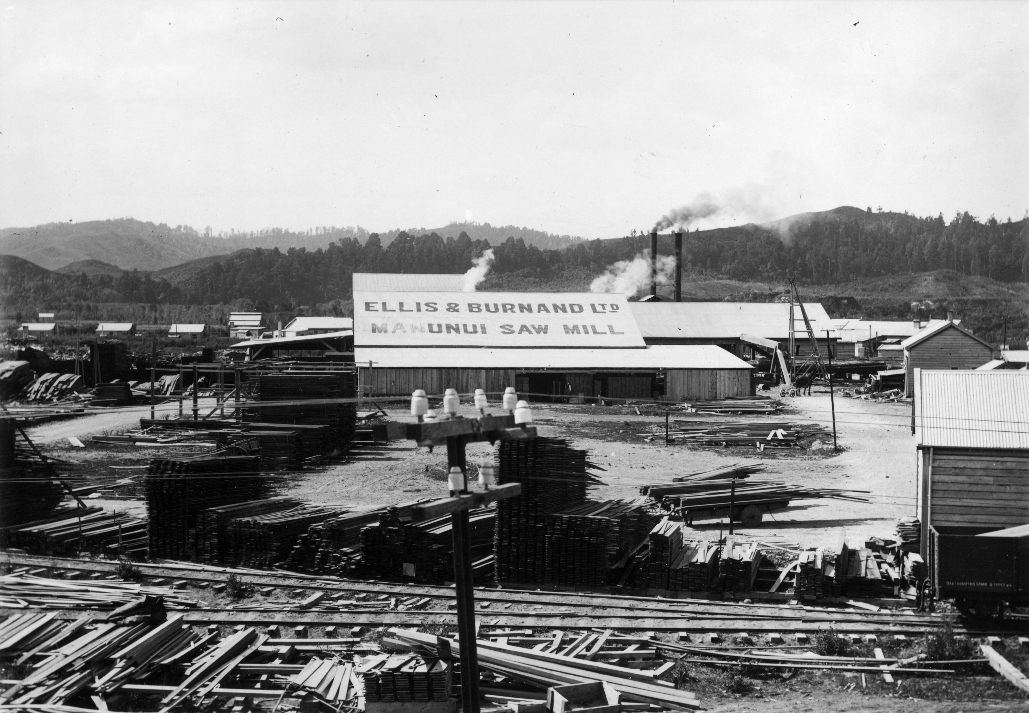 Ellis & Burnand's sawmill and surrounding timber yard at Manunui. Photograph taken by William A Price. Quantity: 1 b&w original negative(s). Ellis & Burnand's sawmill and timber yard at Manunui. Price, William Archer, 1866-1948 :Collection of post card negatives. Ref: 1/2-001296-G. Alexander Turnbull Library, Wellington, New Zealand.